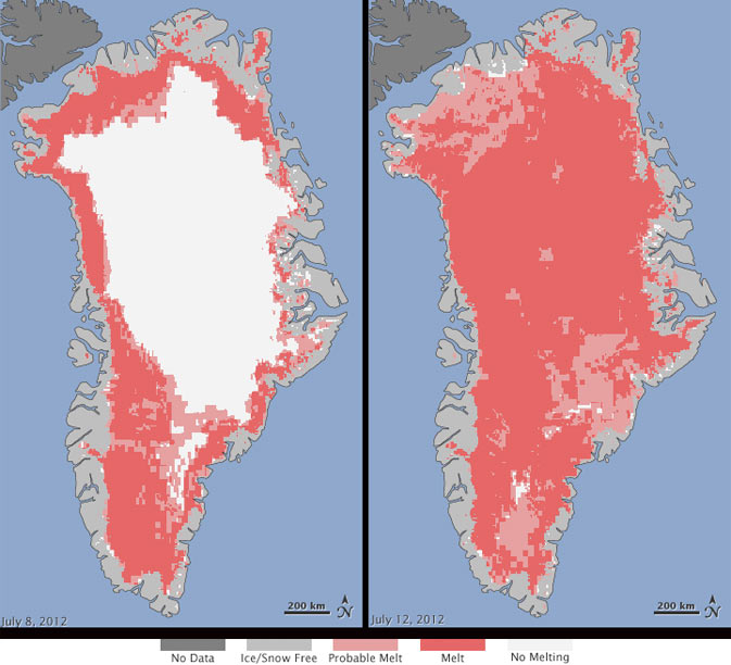 Image showing rapid Greenland meltdown